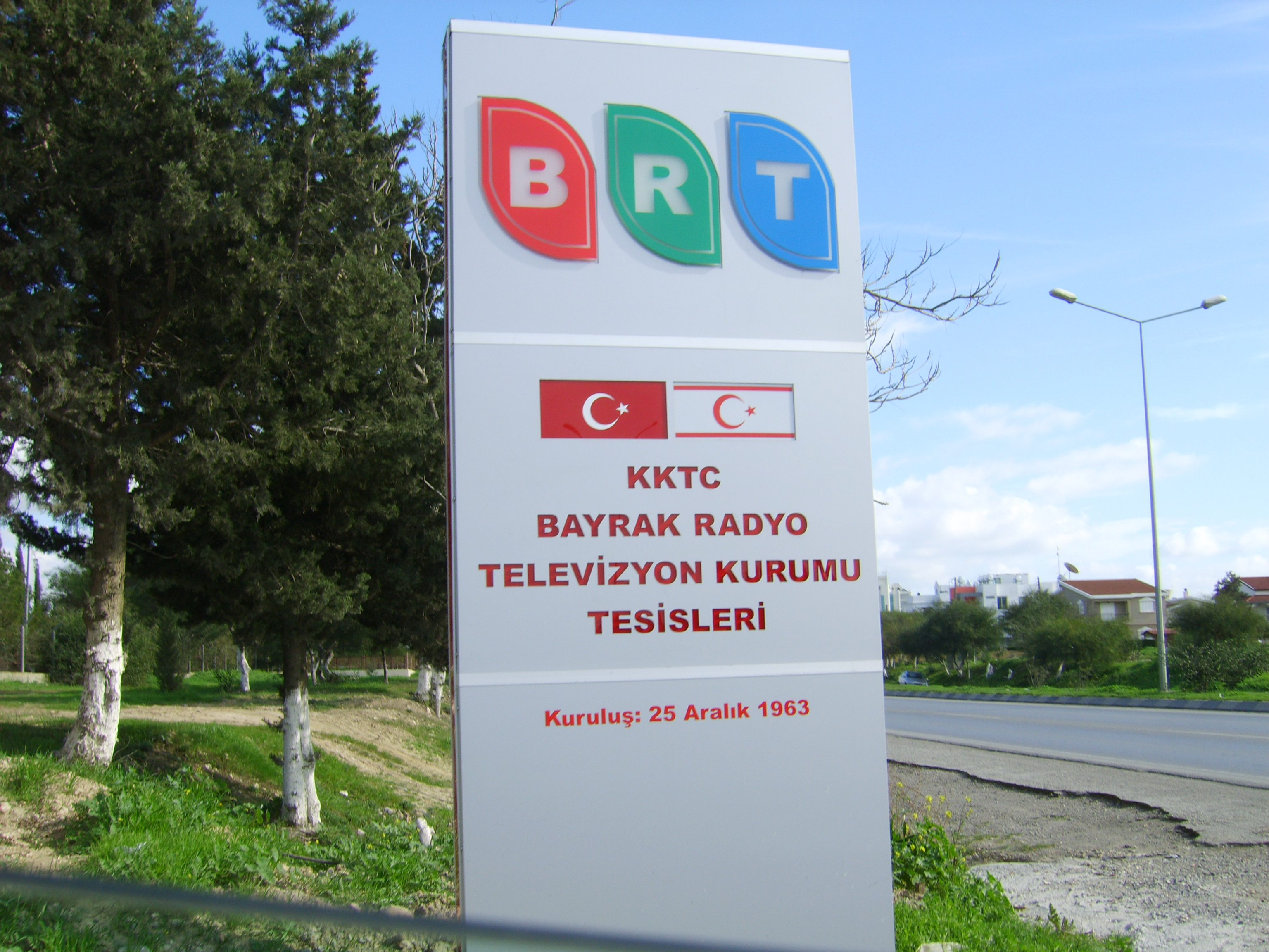 The headquarters of the BRT, the state TV of Northern Cyprus in North Nicosia